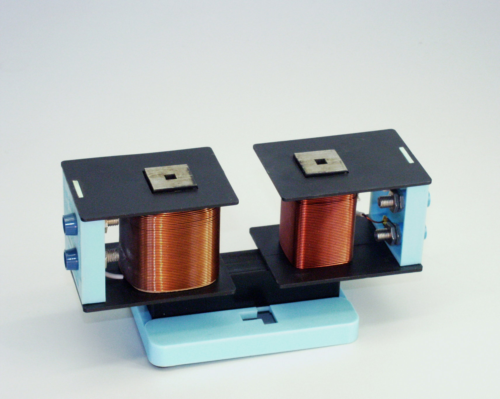 Demountable transformer (3.)